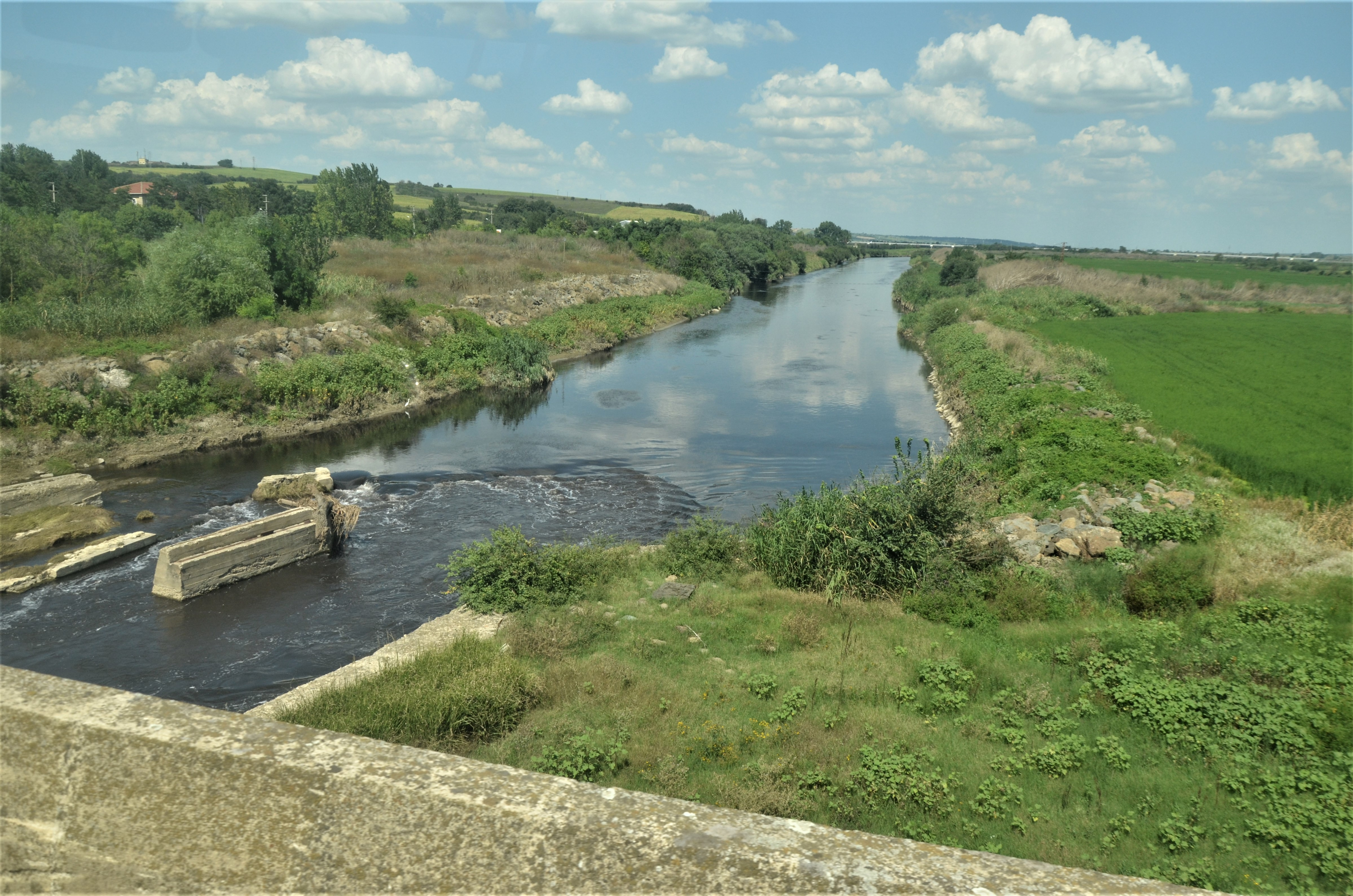 Uzun köprü (The Long Bridge) ,n Uzunkörü, Edirne Province, Turkey